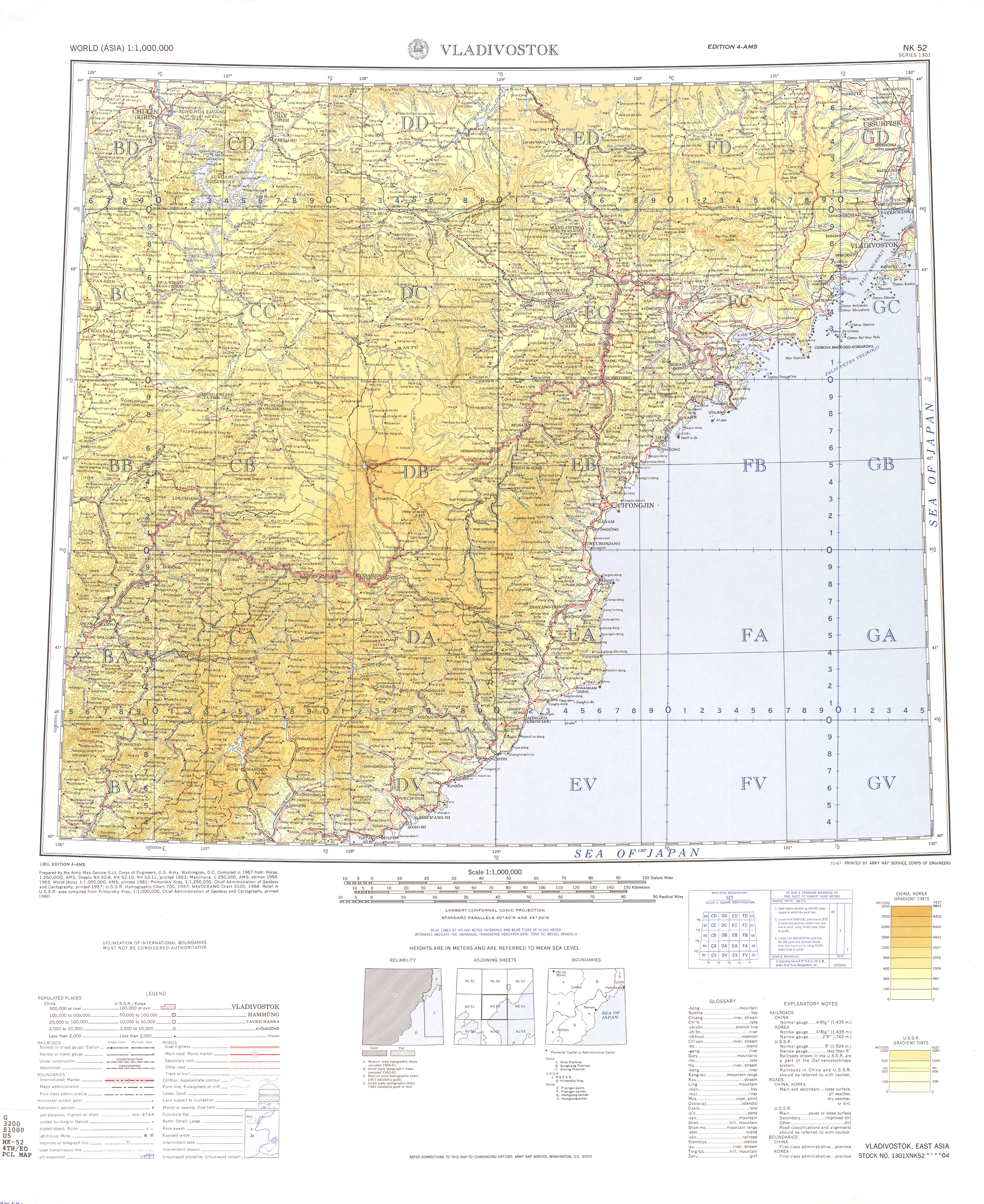 Map from the International Map of the World 1:1,000,000 (from map: "DELINEATION OF INTERNATIONAL BOUNDARIES MUST NOT BE CONSIDERED AUTHORITATIVE")